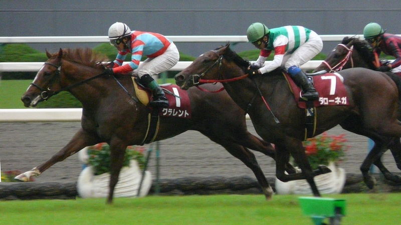 Clarente20111015